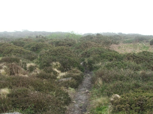 Caer Bran. Mist-shrouded moorland, through which a path leads to Caer Bran hillfort - the rampart can be made out in the background